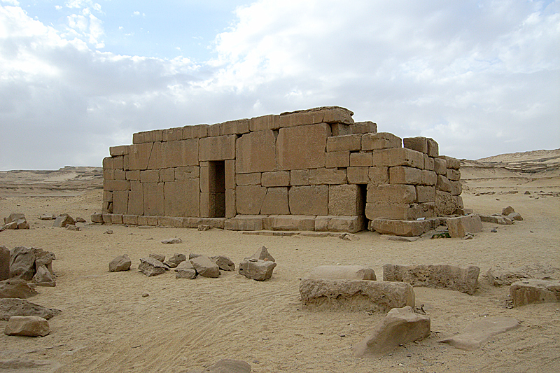 Temple, view to the north-west, Qasr el-Sagha, el-Fayyum, Libyan desert, Egypt